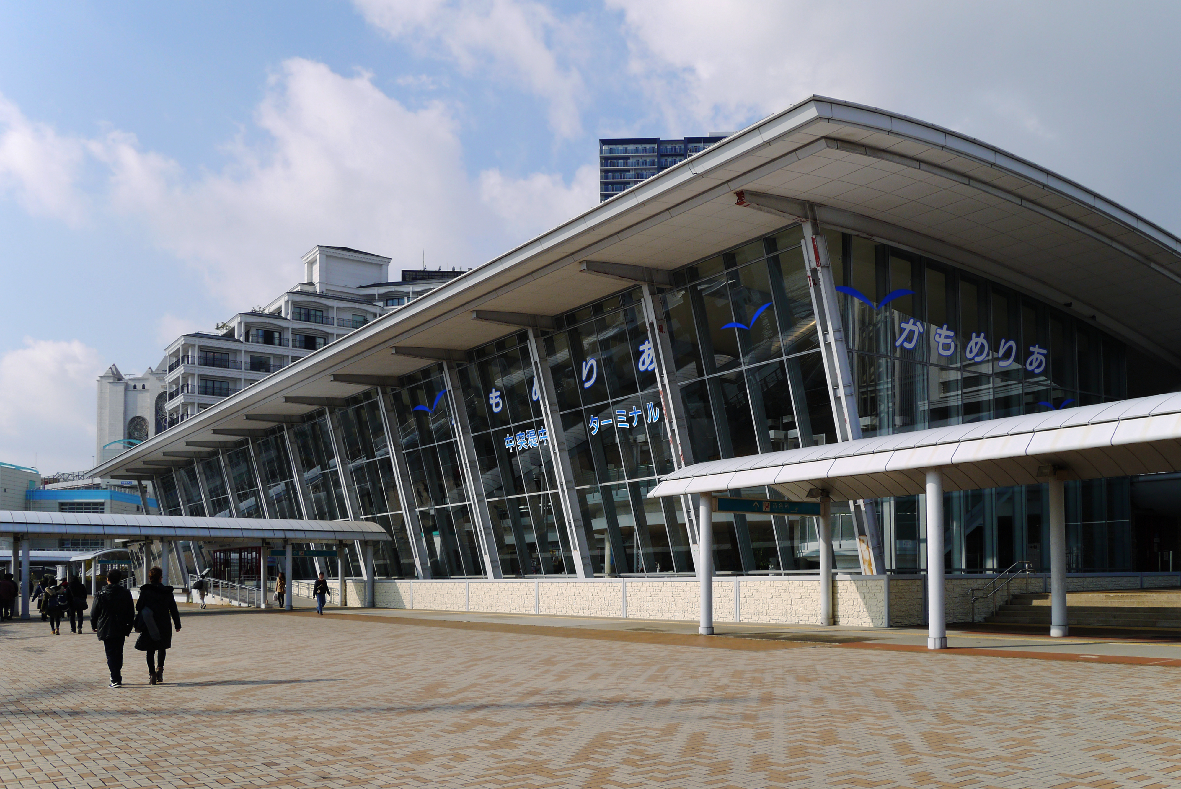 Nakatottei Central Terminal (中突堤中央ターミナル), Kobe, Hyogo prefecture, Japan